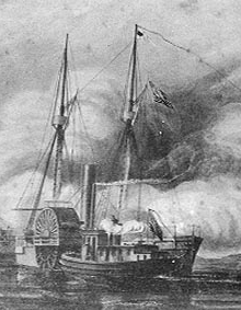 19th Century photograph of a painting by Acting Second Engineer Alexander C. Stuart, USN, 1864. It depicts USS Commodore Hull (at left) leading the "Double-Ender" gunboats Tacony, Shamrock, Otsego and Wyalusing in engaging Confederate batteries at Plymouth, North Carolina, on 31 October 1864. Small vessels lashed to the gunboats' unengaged sides include USS Whitehead (beside Tacony), USS Bazely (beside Shamrock) and Belle (beside Otsego).